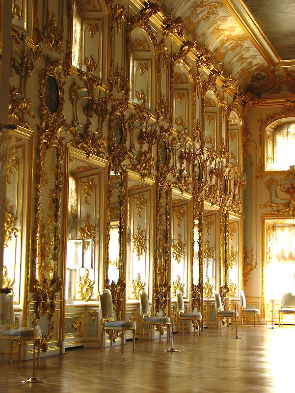 Ball Room of Grand Peterhof Palace